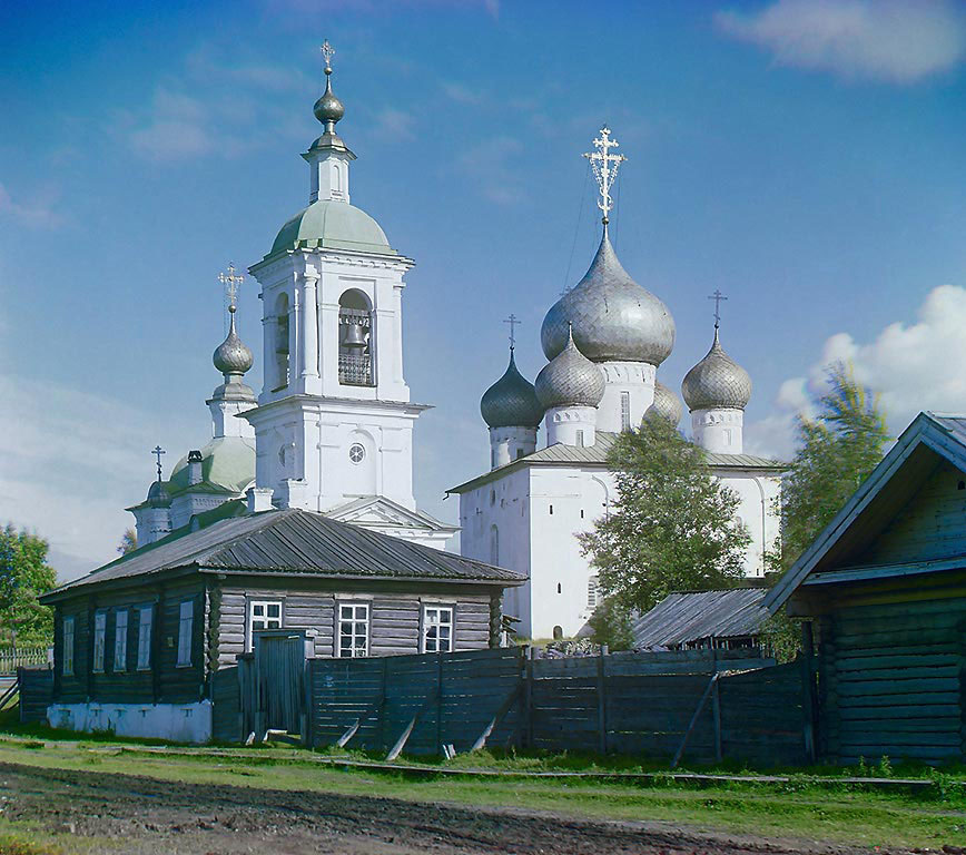 Church of the Assumption of the Mother of God. Belozersk, Russian Empire.